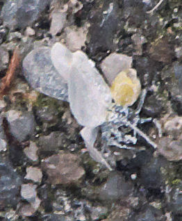 Aleyrodes proletella